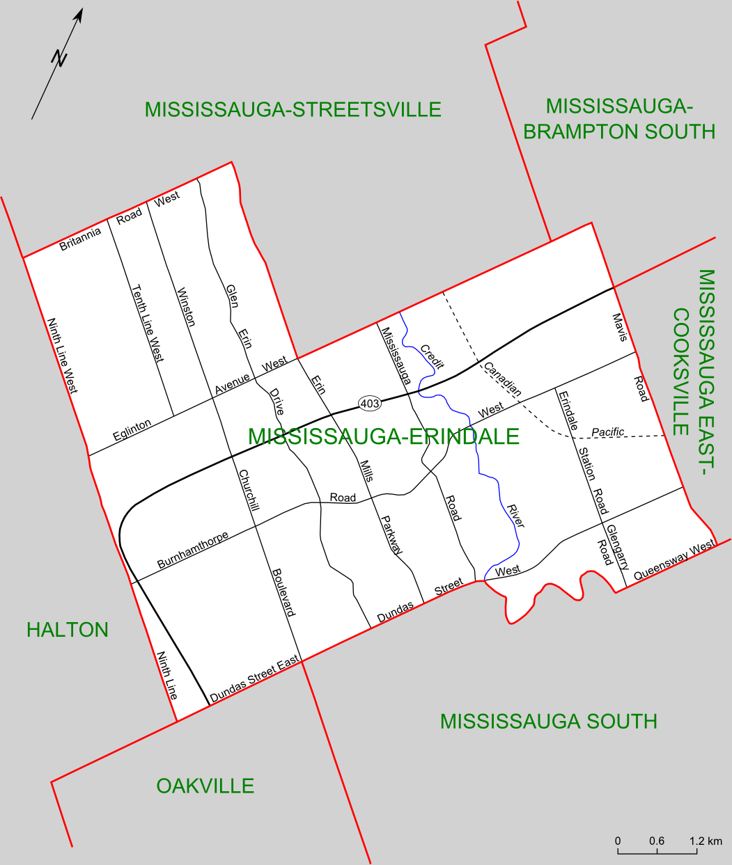 Map of the Ontario federal and provincial riding of Mississauga-Erindale. Boundaries defined in 2003, and adopted federally in 2004 and provincially in 2007.